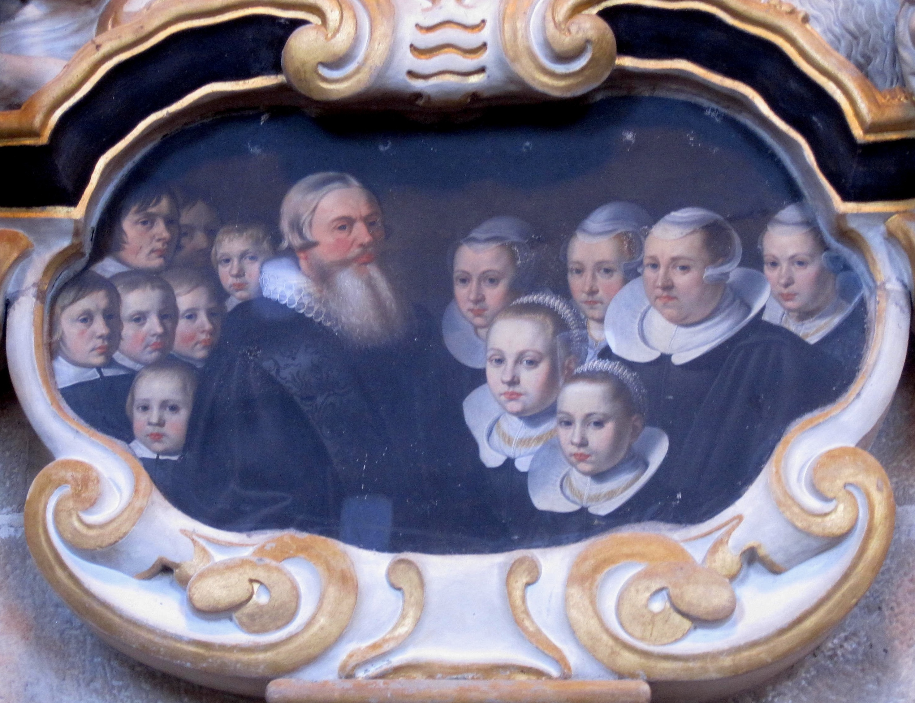 Bishop Mads Jensen Medelfar (1579-1637), his wife Mette Wibe and their children. Painting (by unknown artist) being a part of Medelfar's epitaph in Lund Catherdral.